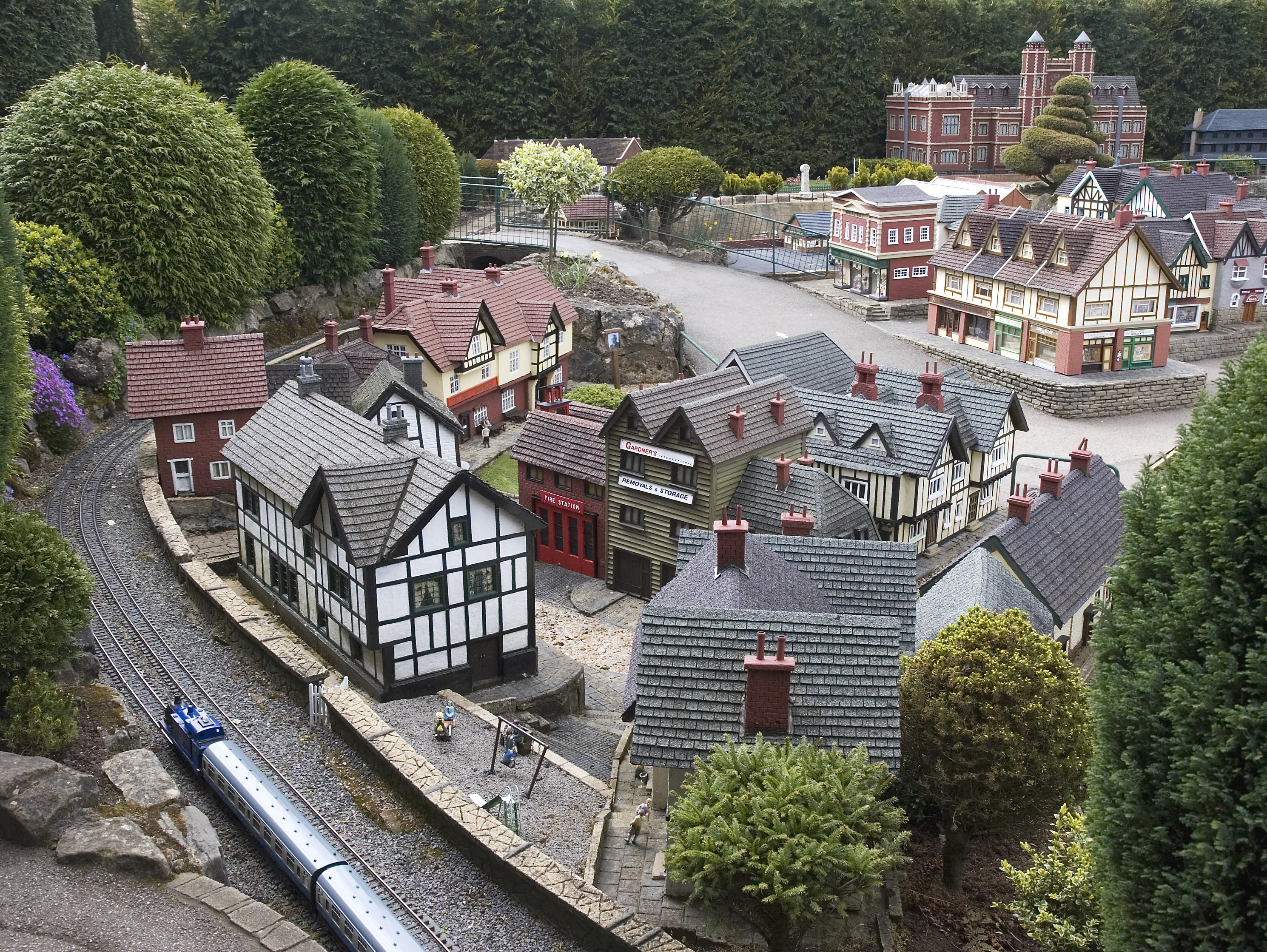 Buildings and train, Bekonscot